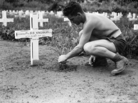 Kokoda, New Guinea. VX125001 Signalman R. William, 18th Lines of Communication Signals tending the grave of the late Private Bruce Steel Kingsbury VC, 2/14TH Infantry Battalion, at the Kokoda War Cemetery.